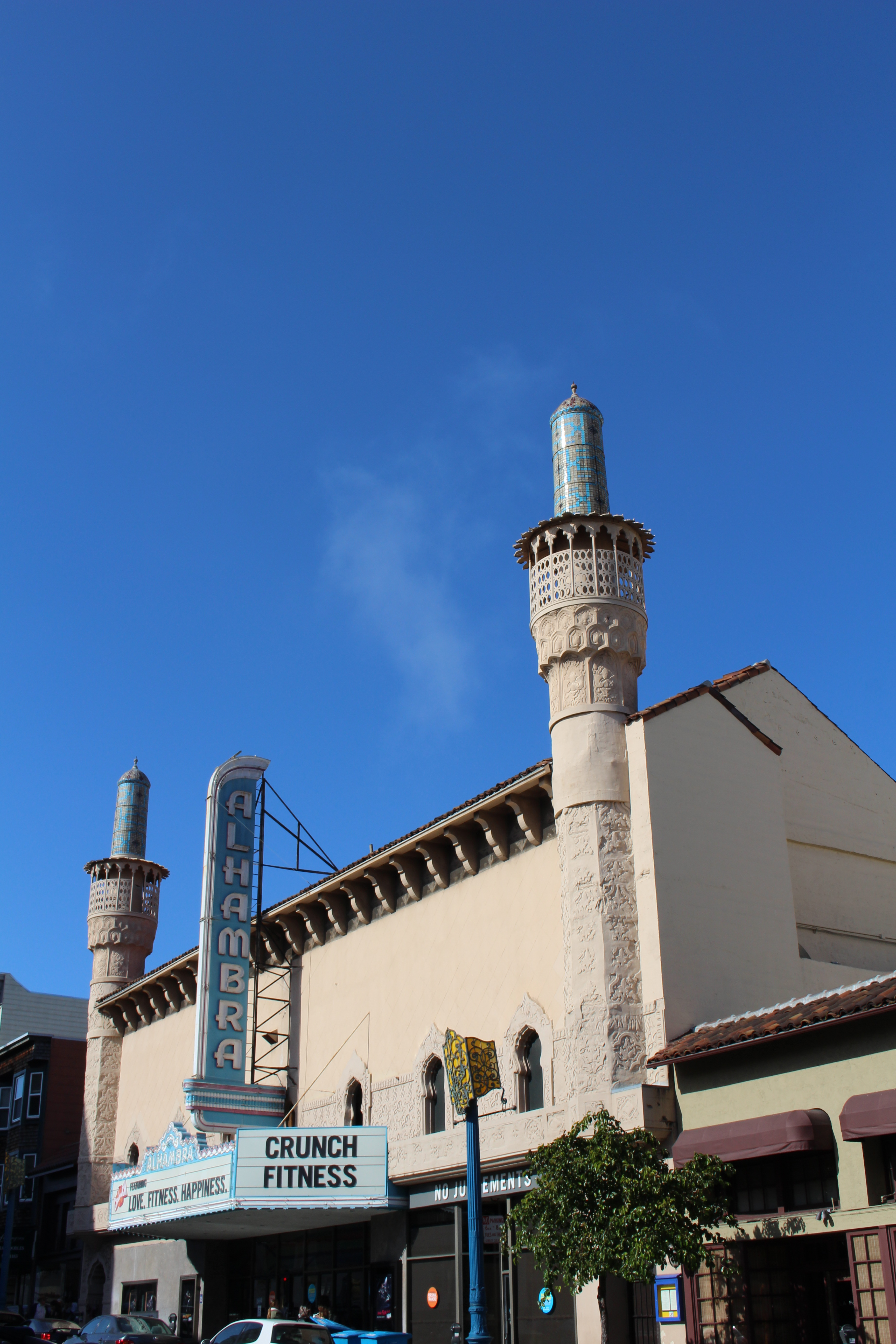 Alhambra Theatre on Polk Street in San Francisco, USA (a former cinema, opened in 1926, that is an example of Moorish Revival architecture). San Francisco designated landmark #217